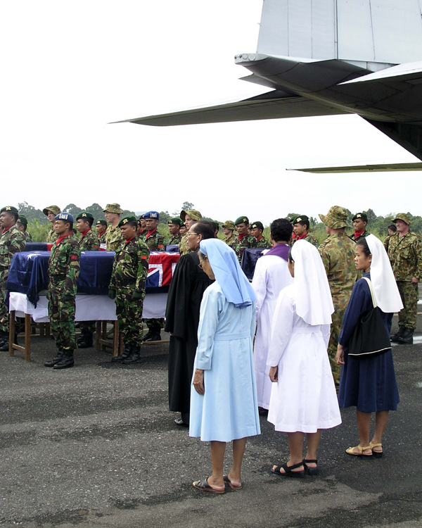 Indonesian and Australian troops combined to mark the dead from the crash of Shark_02, in part of a Christian ceremony held on the island of Nias.